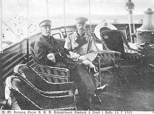 King Oscar II of Sweden and his son Crown Prince Gustaf awaiting the German Emperor Wilhelm II.Fotograph taken onboard the royal yacht "Drott", in the harbour of the city of Gävle, Sweden.